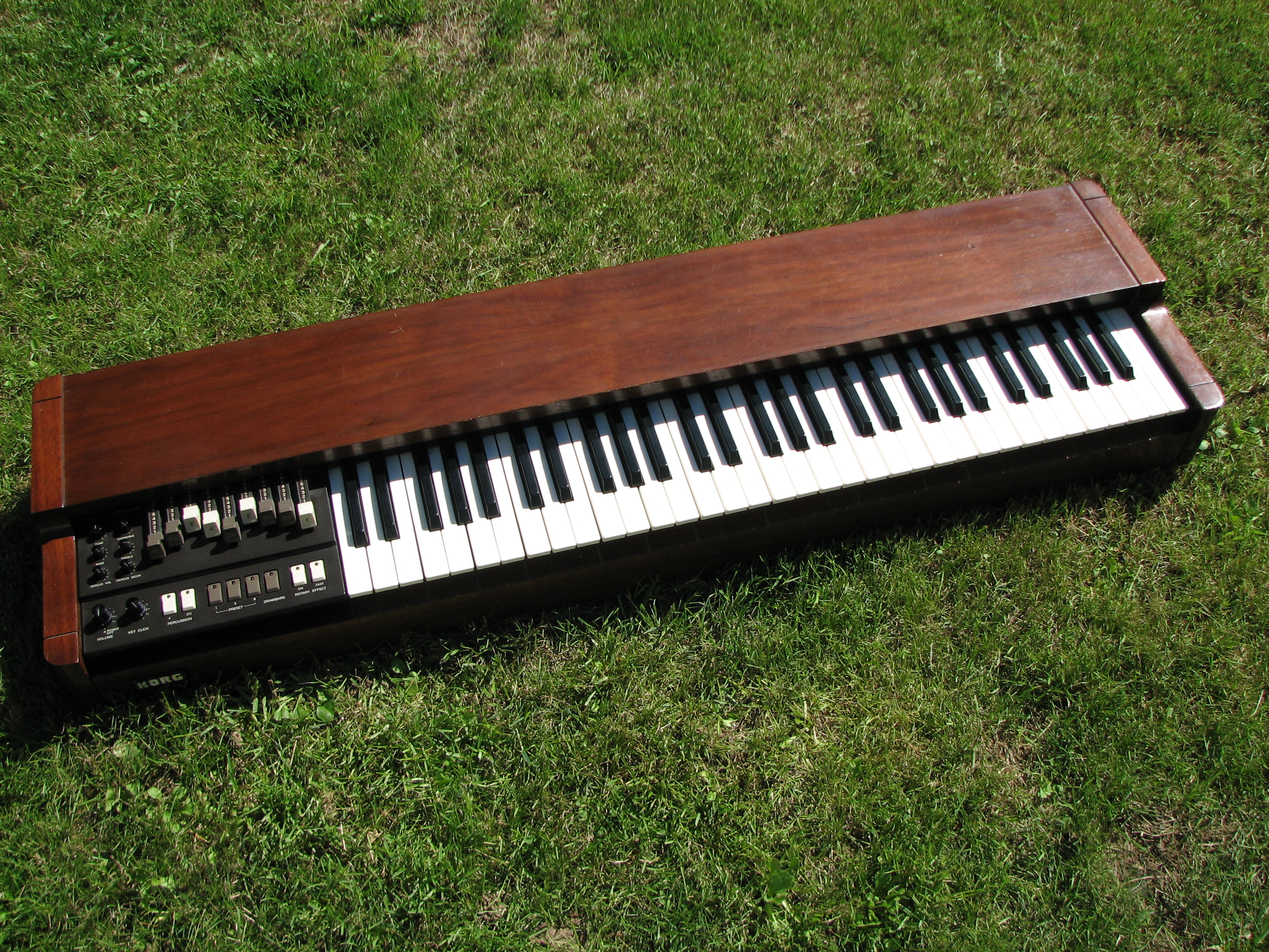 KORG CX-3 drawbar organ (1980, front) uploaded using Flickr upload bot from spaztacular@Flickr